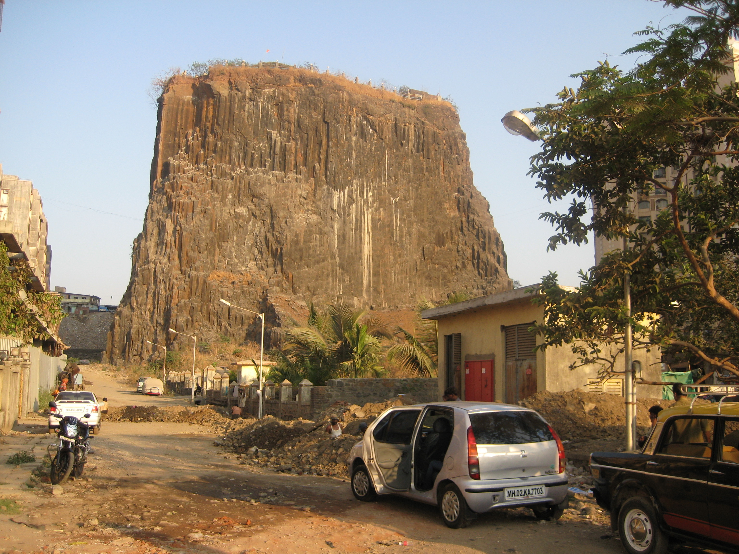 Gilbert Hill is a 200-foot (61 m) monolith column of black basalt rock in Andheri, in Mumbai, India. The rock has a sheer vertical face and was created when molten lava was squeezed out of the earth's clefts during the Mesozoic Era about 65 million years ago. During that era, molten lava had spread around most of the Indian states of Maharashtra, Gujarat and Madhya Pradesh. The volcanic eruptions were also responsible for the destruction of plant and animal life during that era. According to experts, this rare geological phenomenon was the remnants of a ridge and had clusters of vertical columns in nearby Jogeshwari which were quarried off two decades ago. These vertical columns are similar to the Devils Tower National Monument in Wyoming, and the Devils Postpile National Monument in eastern California, USA. Atop the rock column, two Hindu temples, the Gaodevi and Durgamata temples, set in a small garden, are accessed by a steep staircase carved into the rock. The hill offers a panoramic view of the city of Mumbai and was notified as a heritage structure in September 2007.